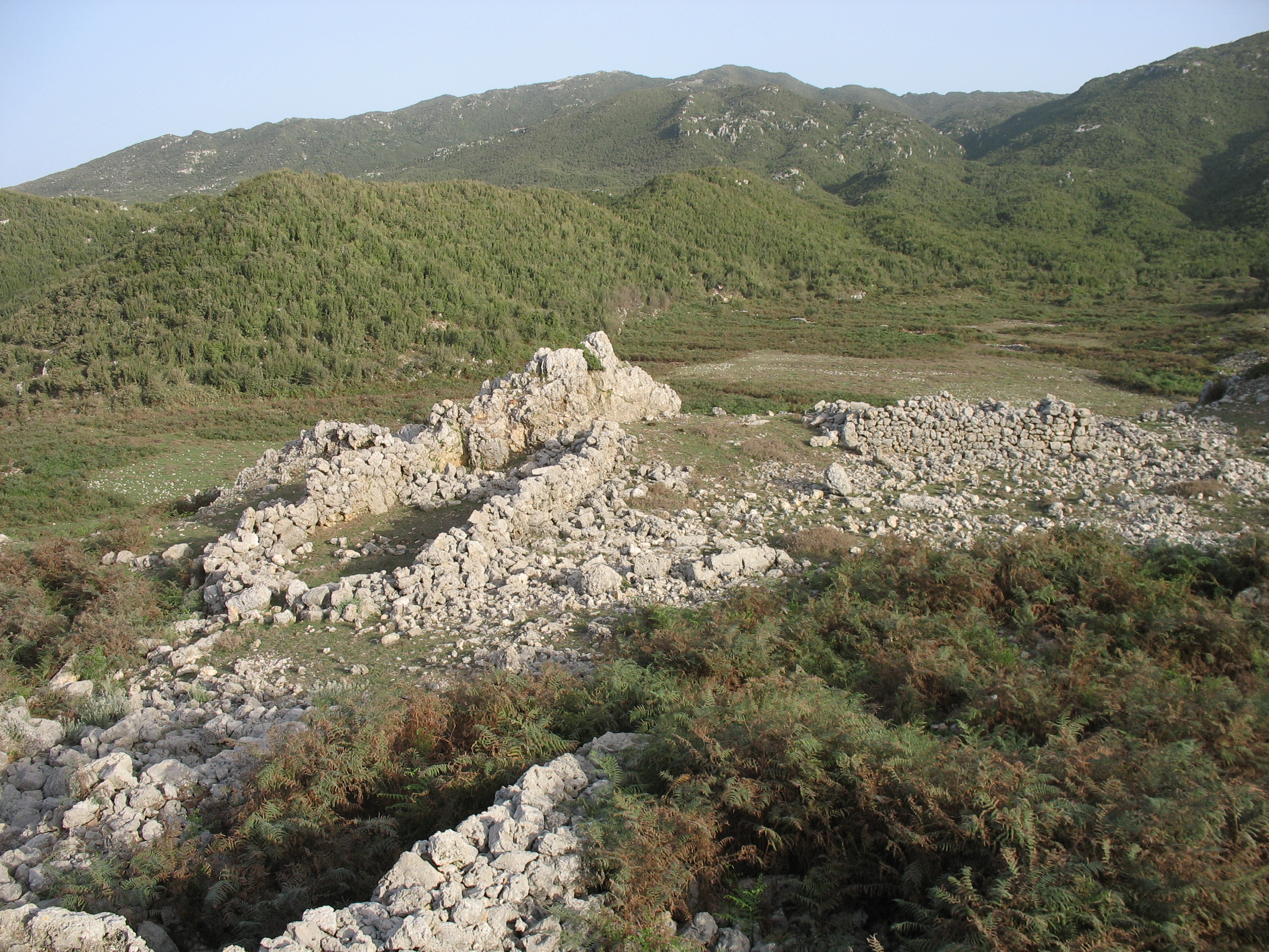 The picture shows the site at the Musa Dagh mountain where the 4000 Armenian People described in Franz Werfels book "The 40 days of Musa Dagh" resisted the attack of the Turkish army in summer 1915. The picture was taken by Andre Thess on 12 September 2015, the 100th anniversary of the rescue of the Armenians.